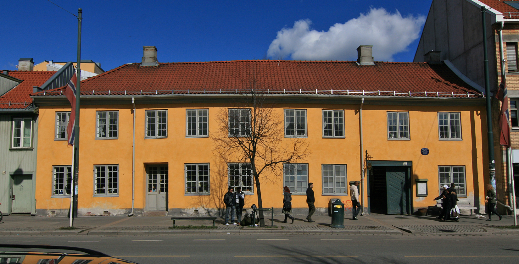 «Asylet», Grønland 28, Oslo. Built 1740; side wing 1798. Protected by law.